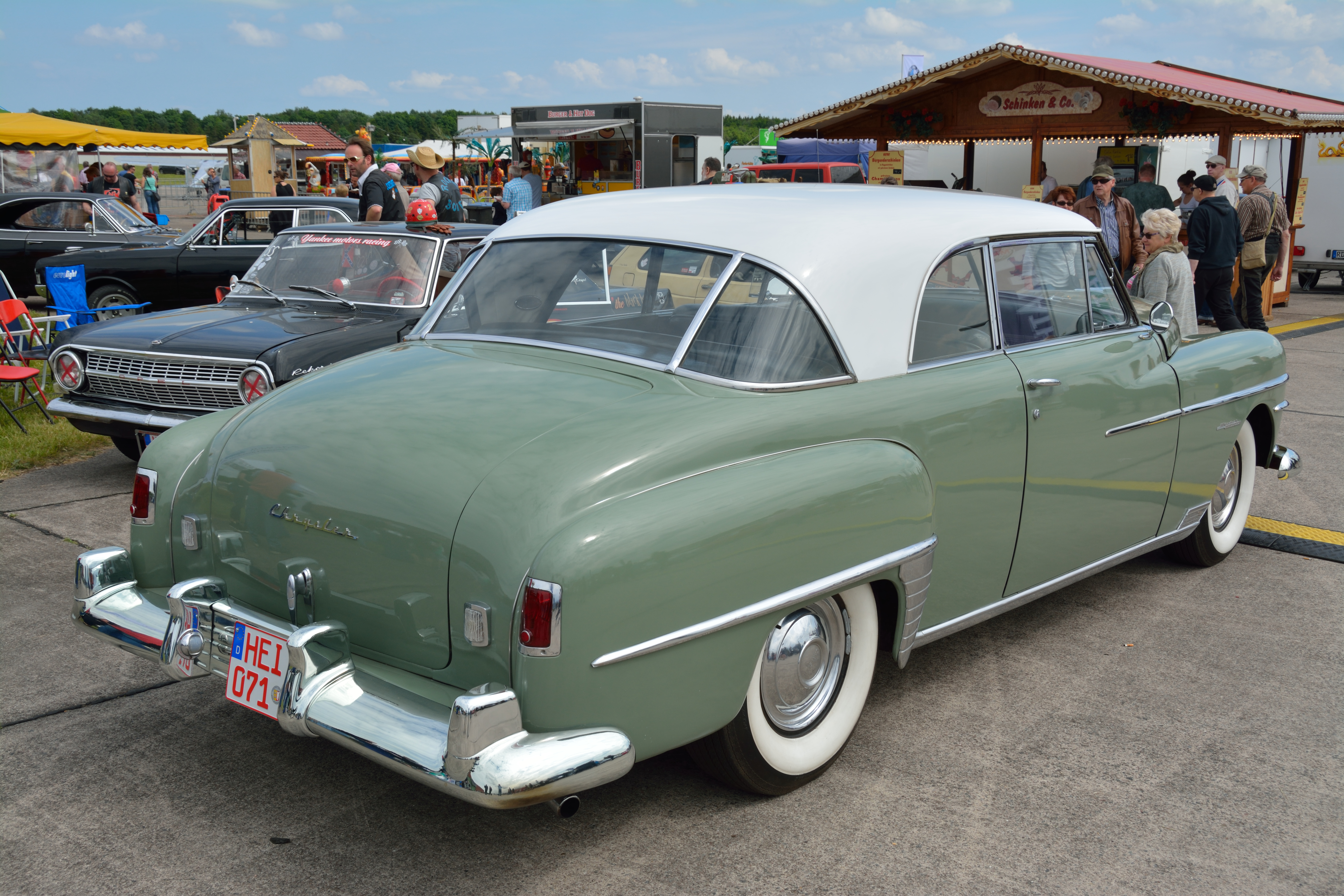 1950 Chrysler Windsor Newport coupe (C48W)